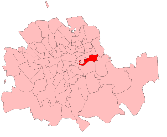 A map of Limehouse constituency within the Metropolitan Board of Works area, as it existed from 1885 to 1918.